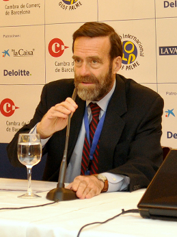 Finançament, economia productiva, sobirania europea i poder financer van ser alguns dels temes que es van tractar durant la Trobada.